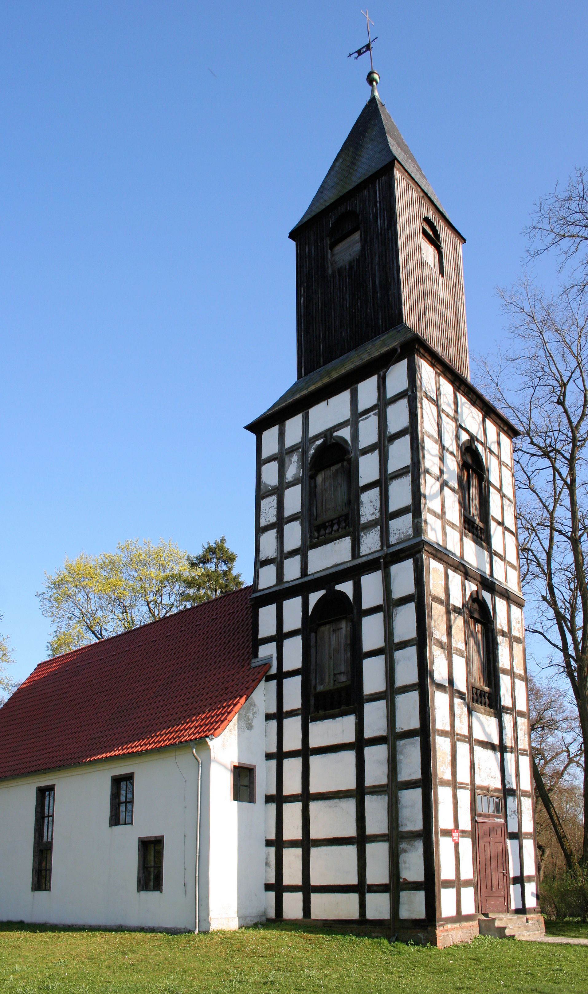 St. Adalbert Church in Dyszno